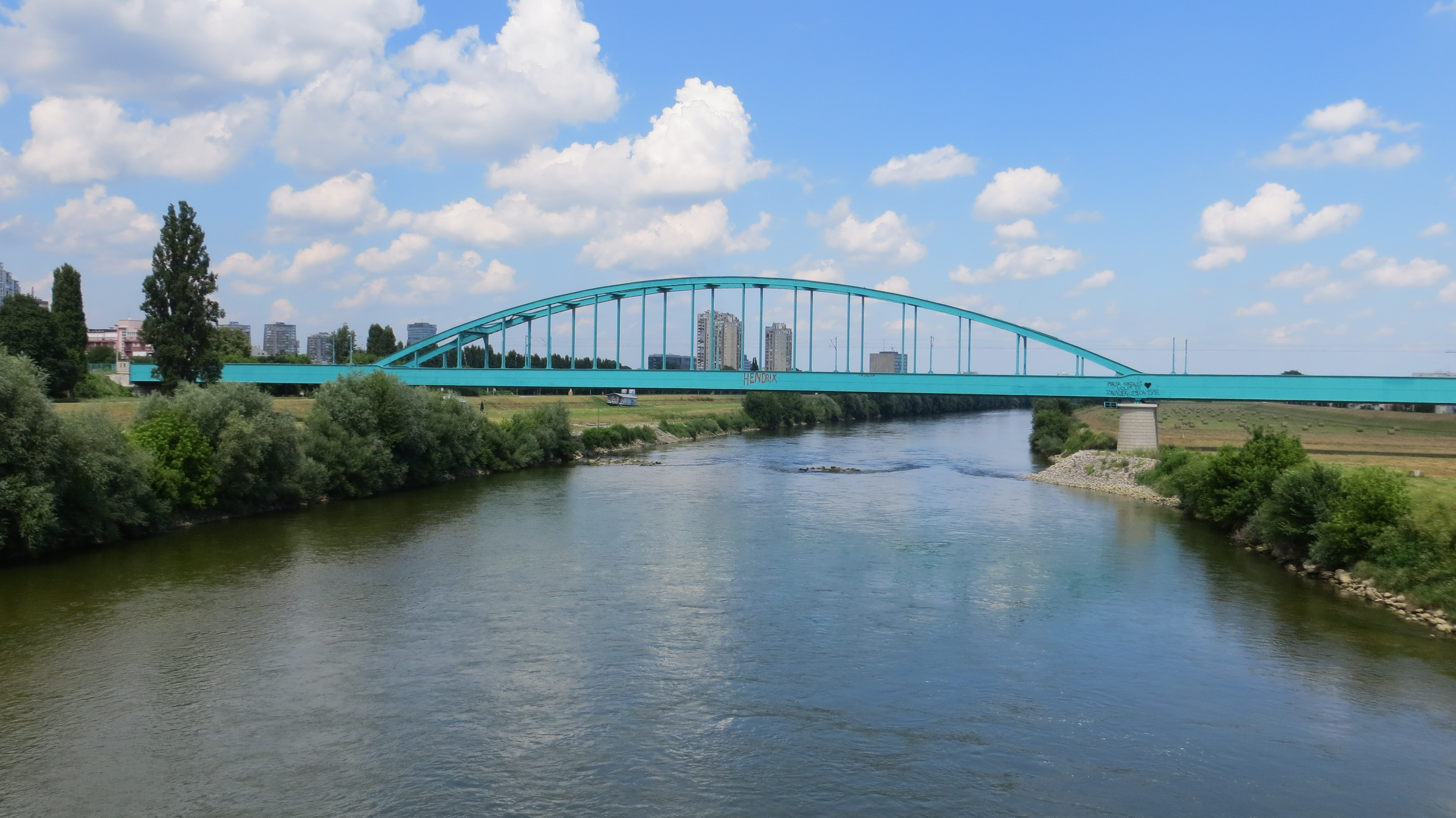 Railway bridge over the Sava in Zagreb.